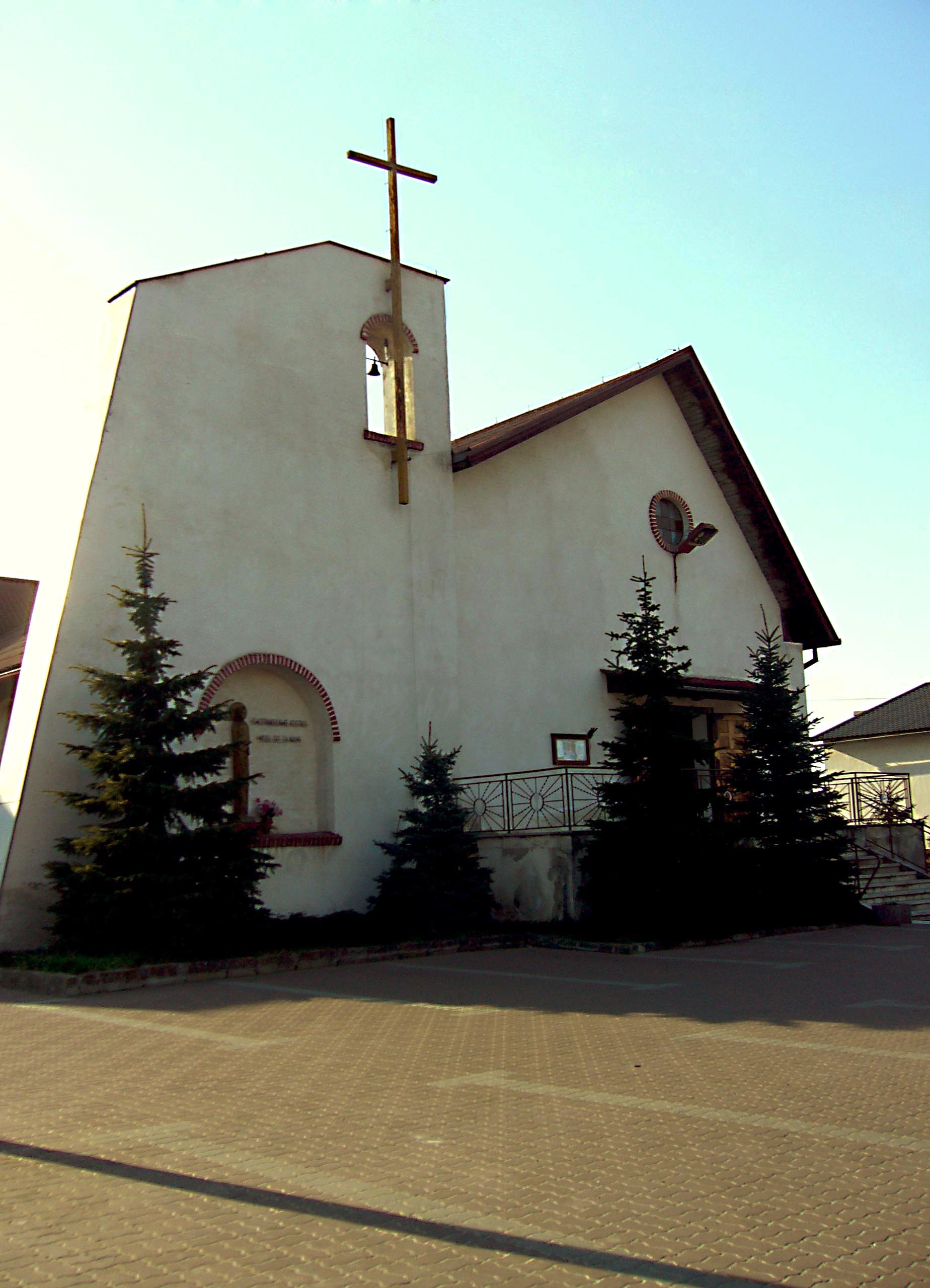 St. Stanislaw Kostka church in Tur